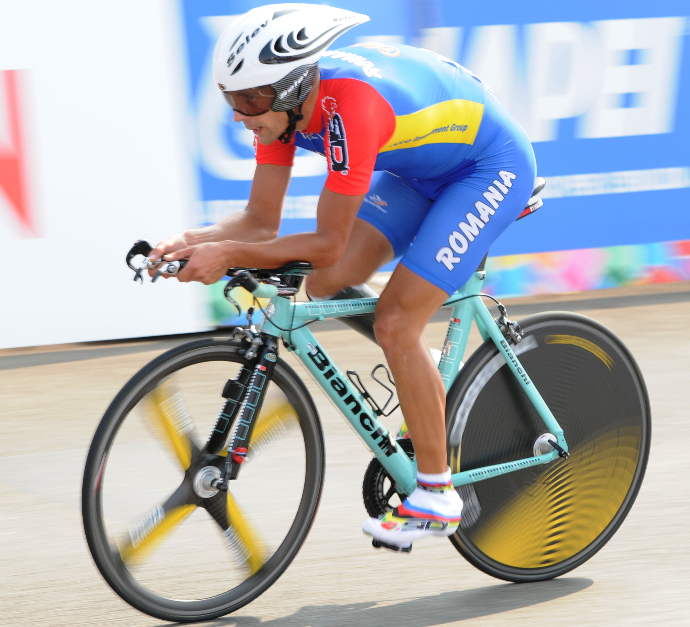 Carol Eduard Novak at UCI World Championships in Mendrisio, Switzerland